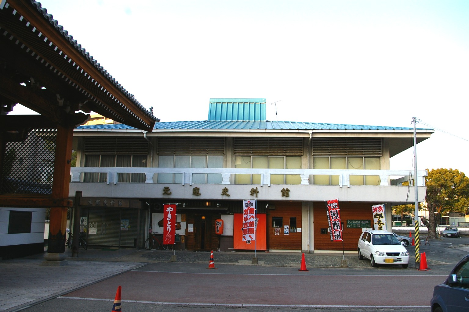 Fukuoka